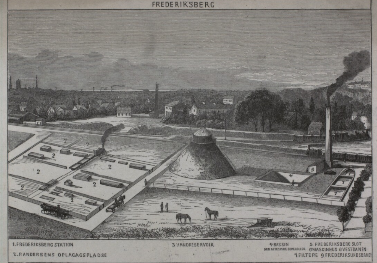 "P. Andersens Vandværk og Oplagspladse", Frederiksberg, Denmark